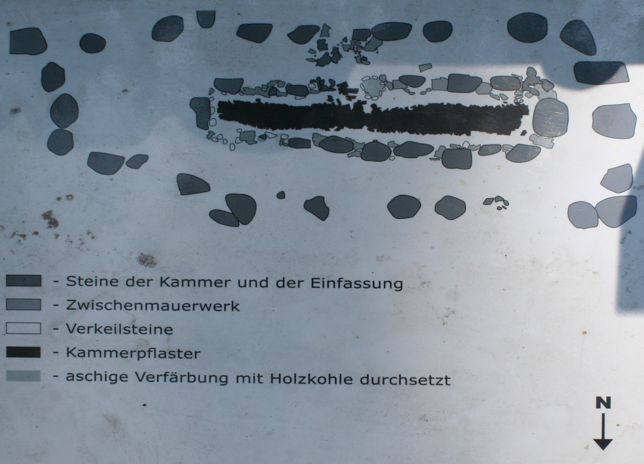 Megalithic tomb "Küchentannen" near Haldensleben